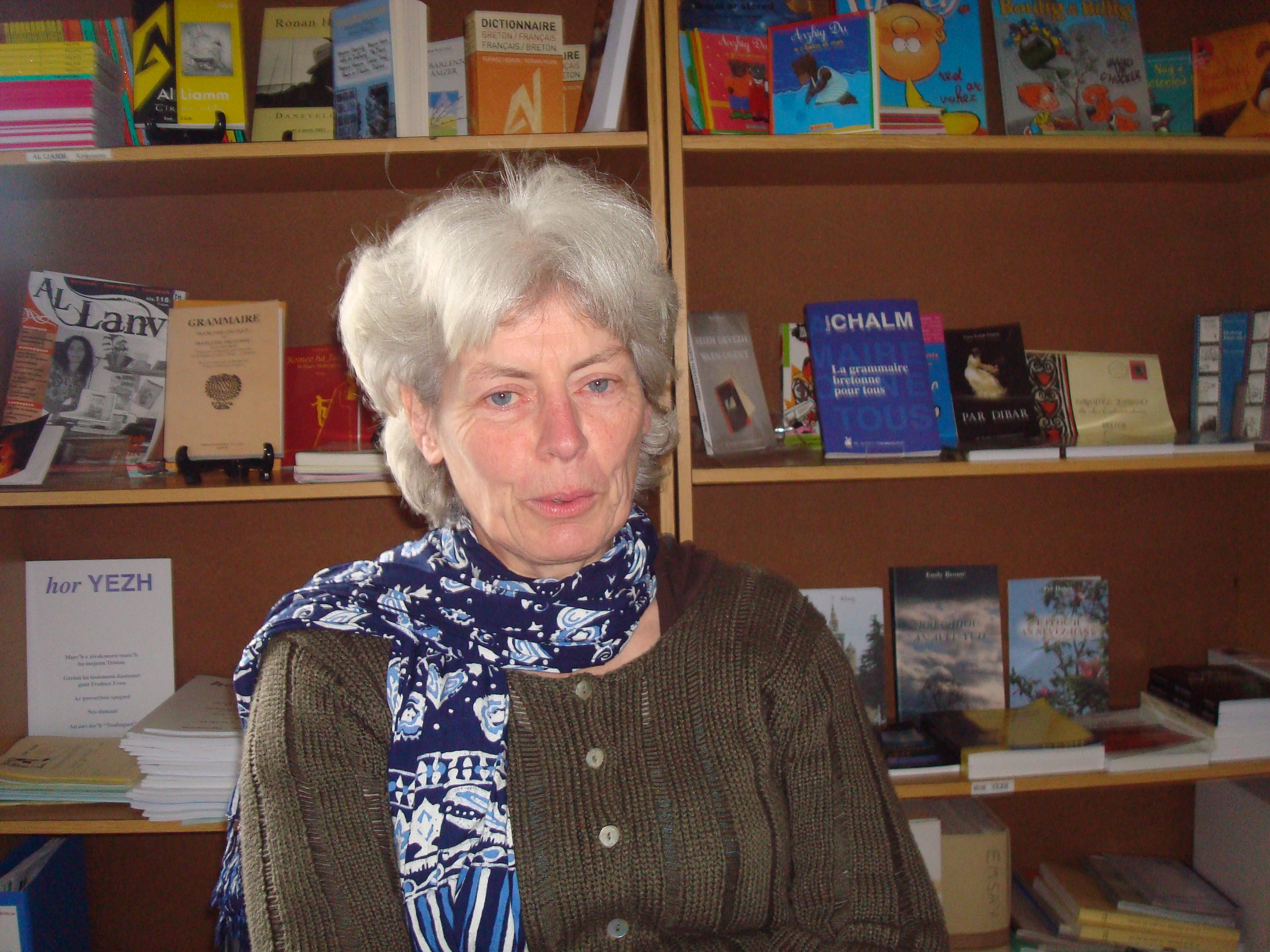 Riwanon Kervella, director at the Breton Language School and a member of the Council of the Breton Language